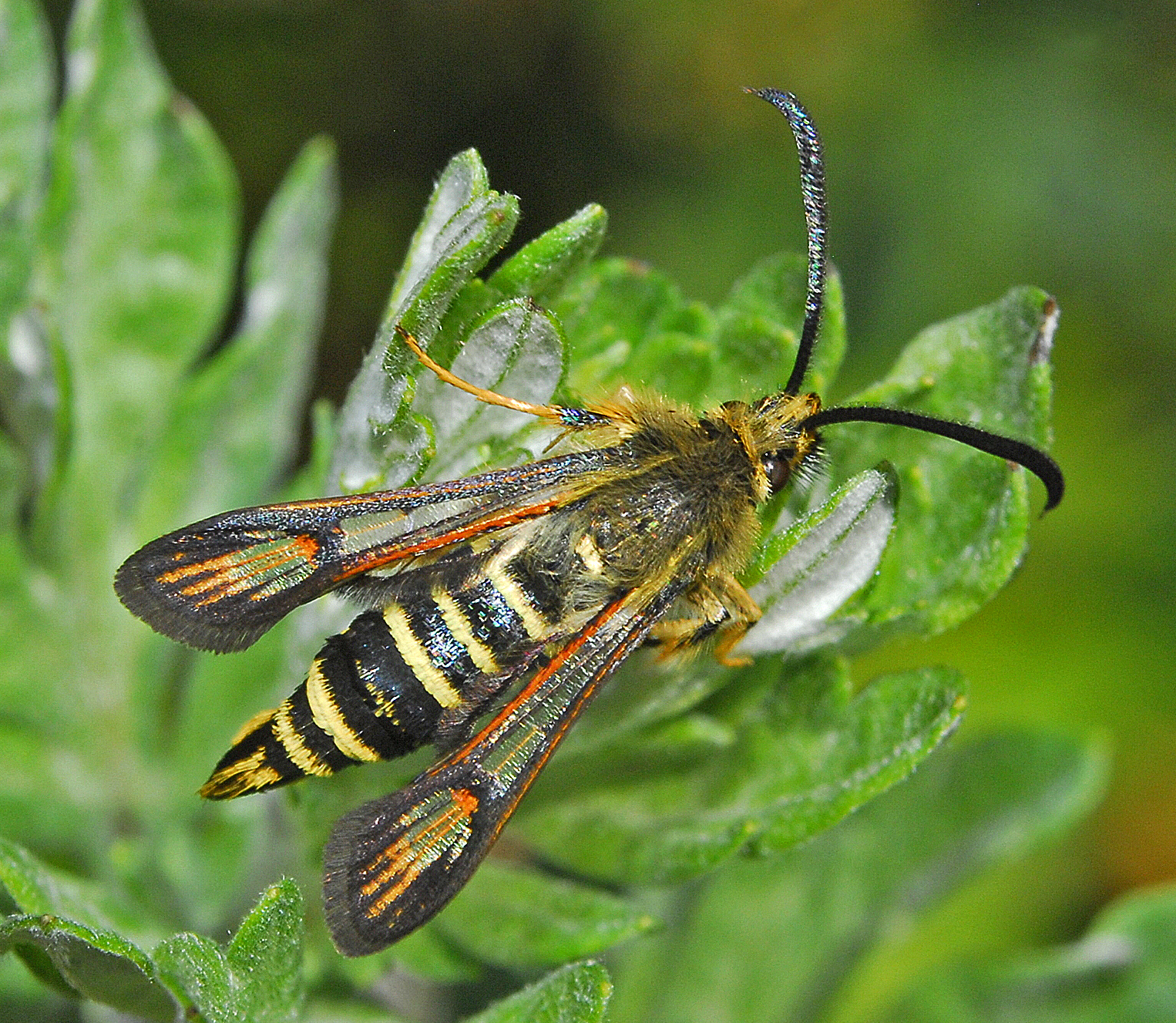 Bembecia ichneumoniformis, male. La Thuile, Aosta, Italy